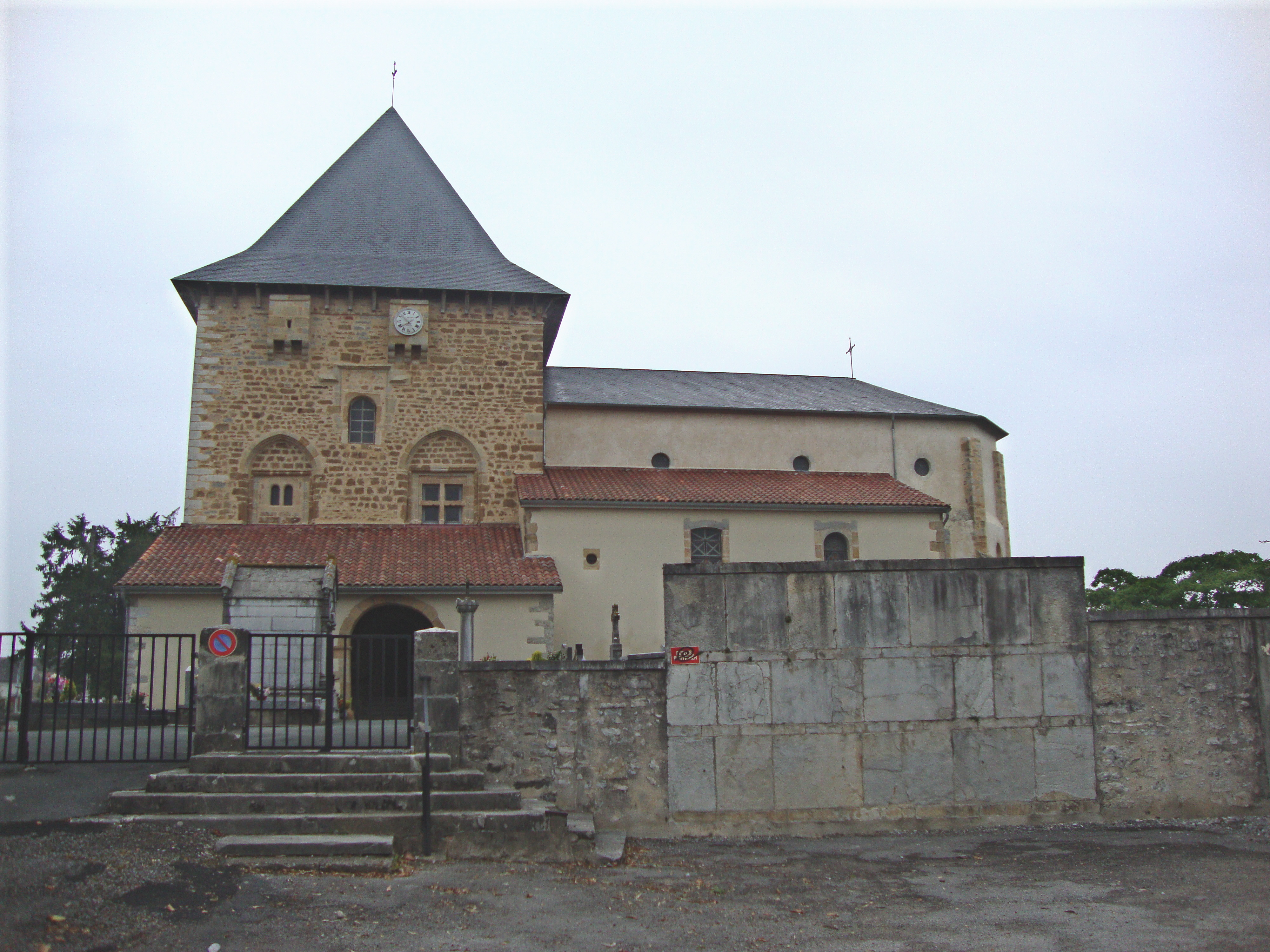 Église Saint-Jean-Baptiste de Domezain (Domezain-Berraute,_Pyr-Atl,_Fr)